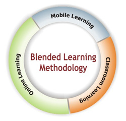 Blended learning methodology graphic